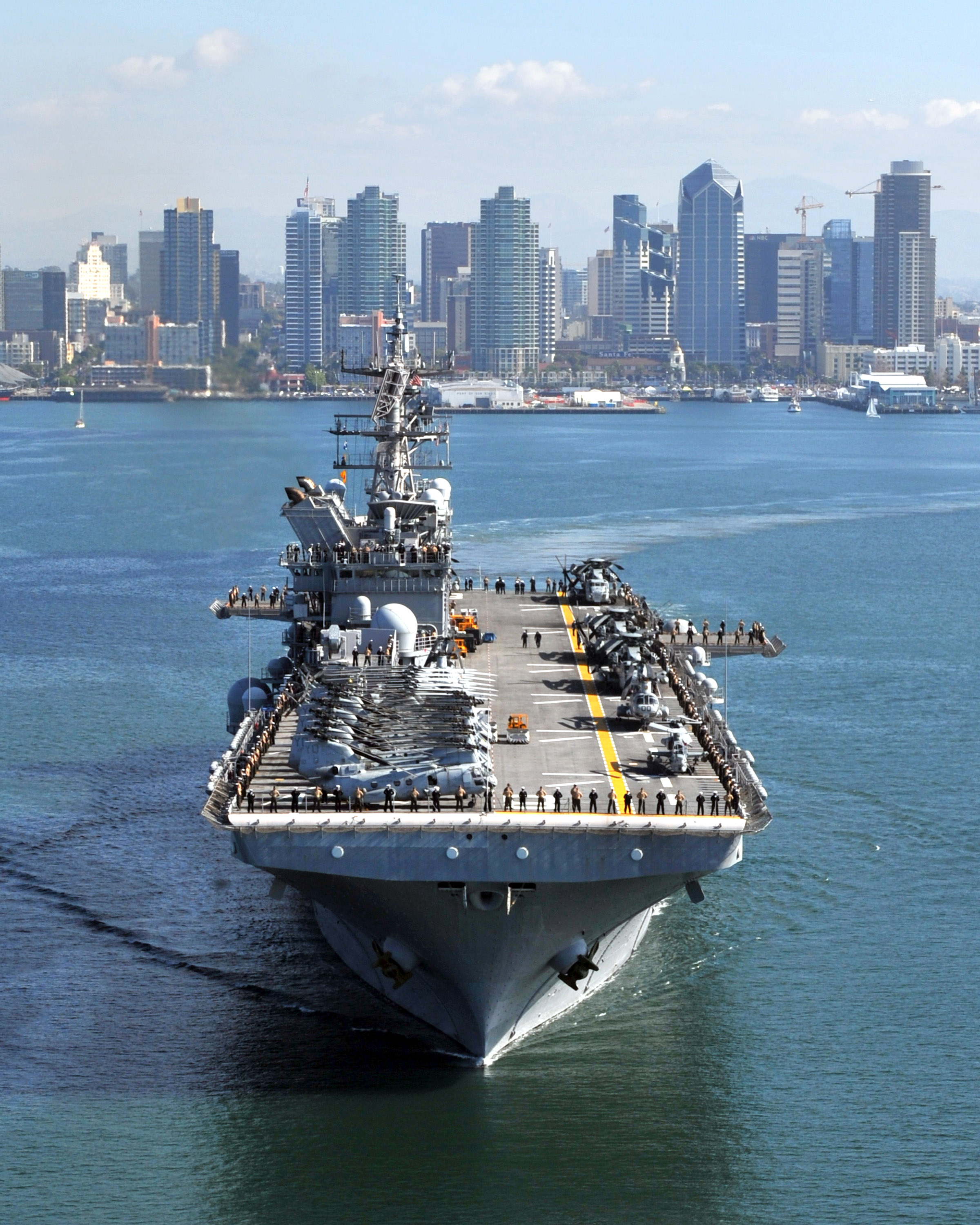 SAN DIEGO (Nov. 14, 2011) The amphibious assault ship USS Makin Island (LHD 8) departs Naval Base San Diego on its first operational deployment to the western Pacific region. Makin Island is the Navy's newest amphibious assault ship and the only U.S. Navy ship with a hybrid-electric propulsion system. (U.S. Navy photo by Chief Mass Communication Specialist John Lill/Released)